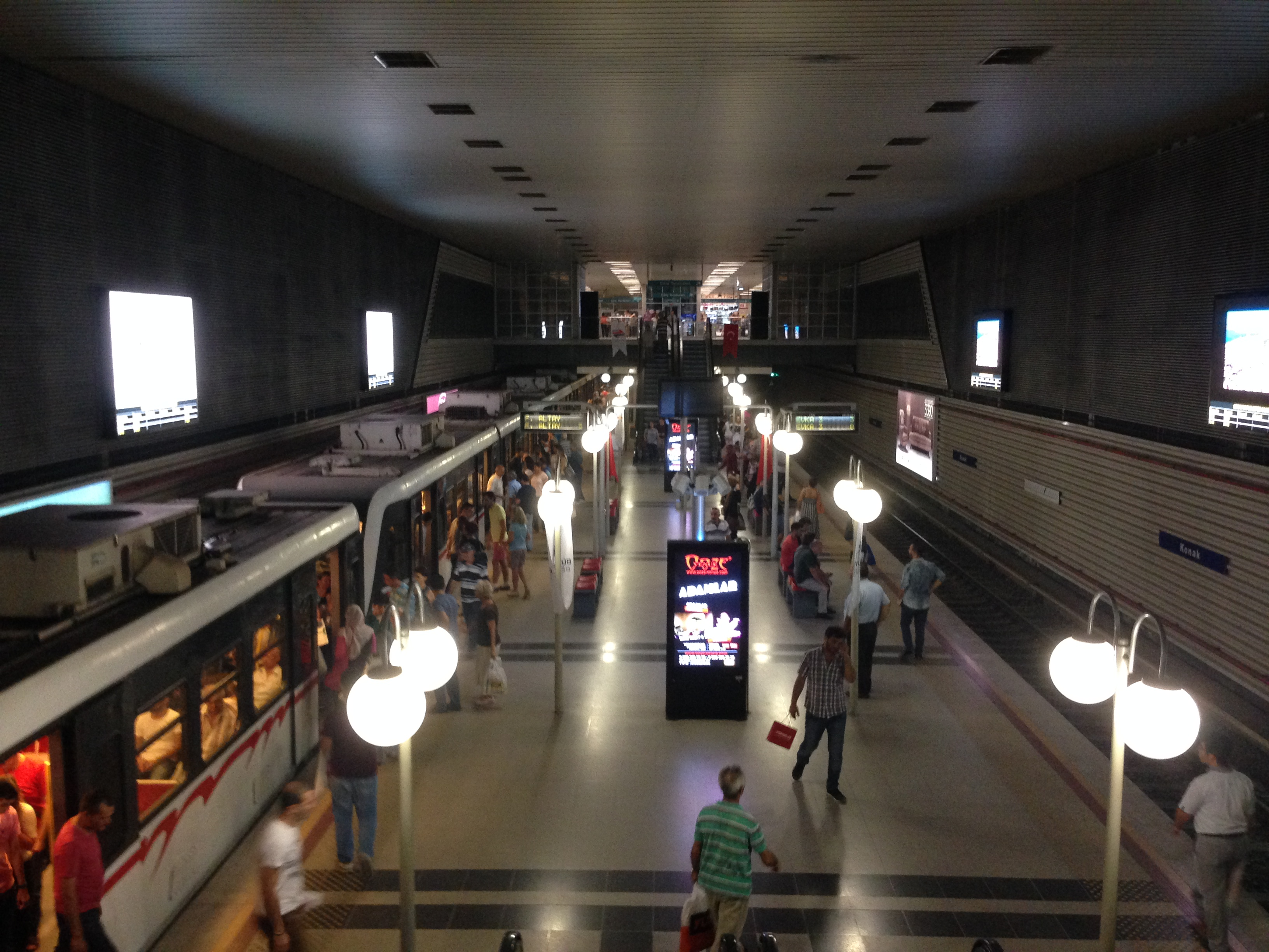 Konak station on the Izmir Metro.